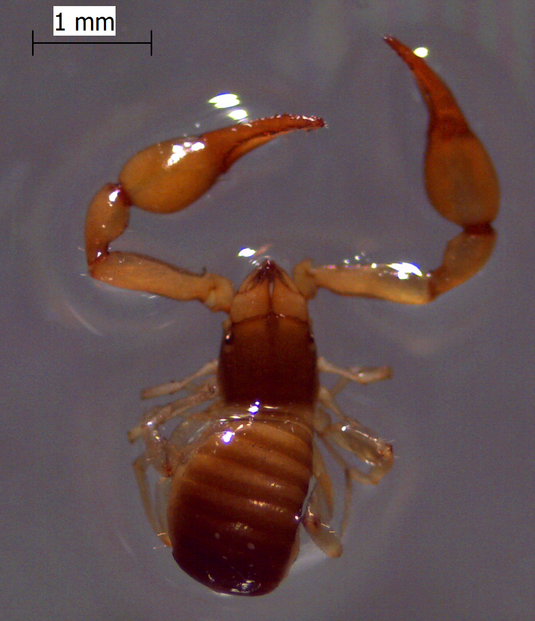 Pseudoscorpion Chthonius from W Serbia. Српски (ћирилица): Псеудоскорпија из рода Chthonius (околина Ваљева, З Србија).